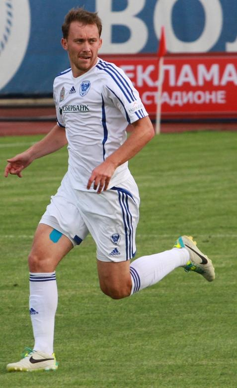 Roman Kontsedalov playing for FC Volga Nizhny Novgorod.